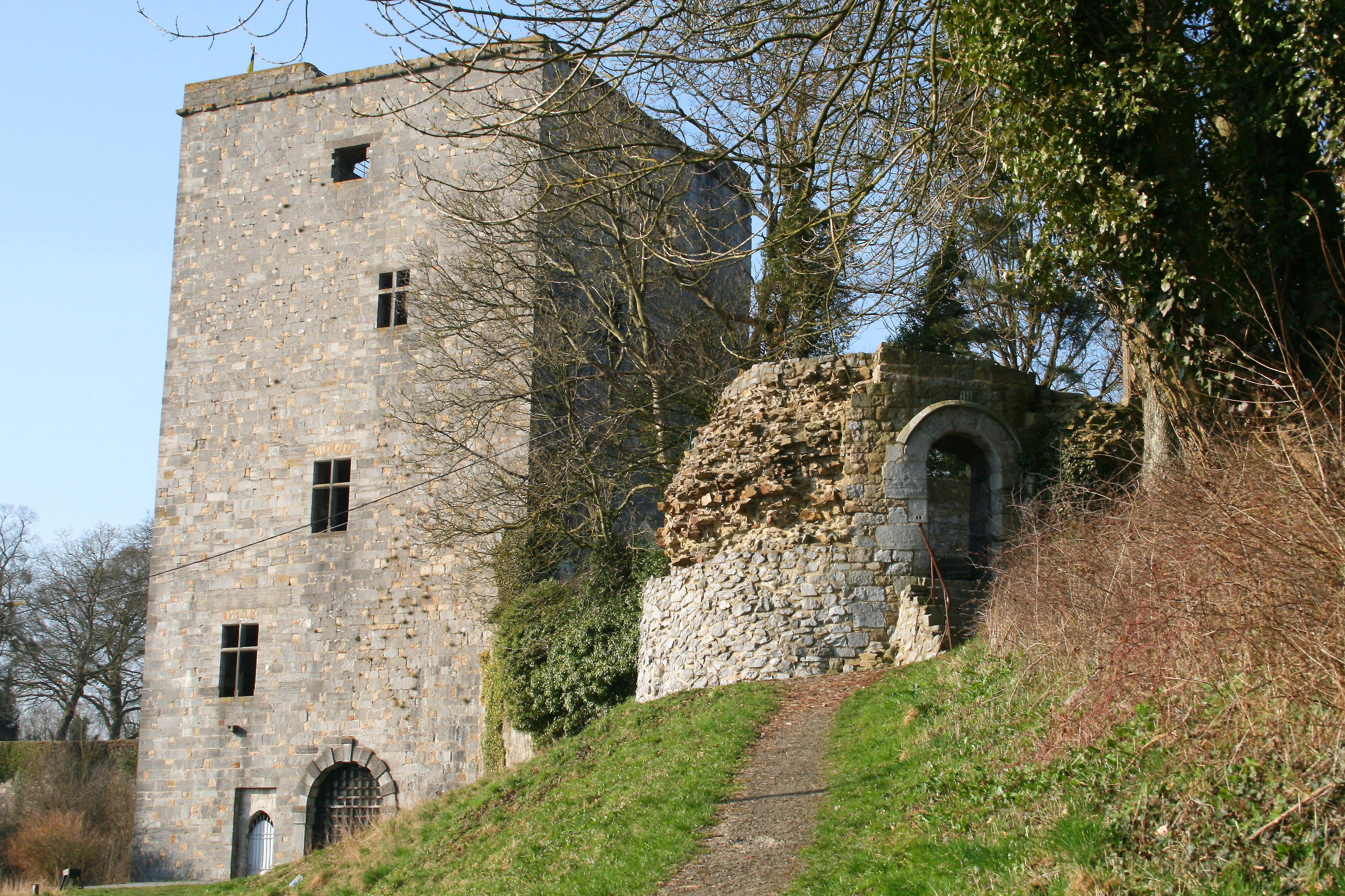 Beaumont, Belgium, the postern and the "Tour Salamandre" (XIth century).